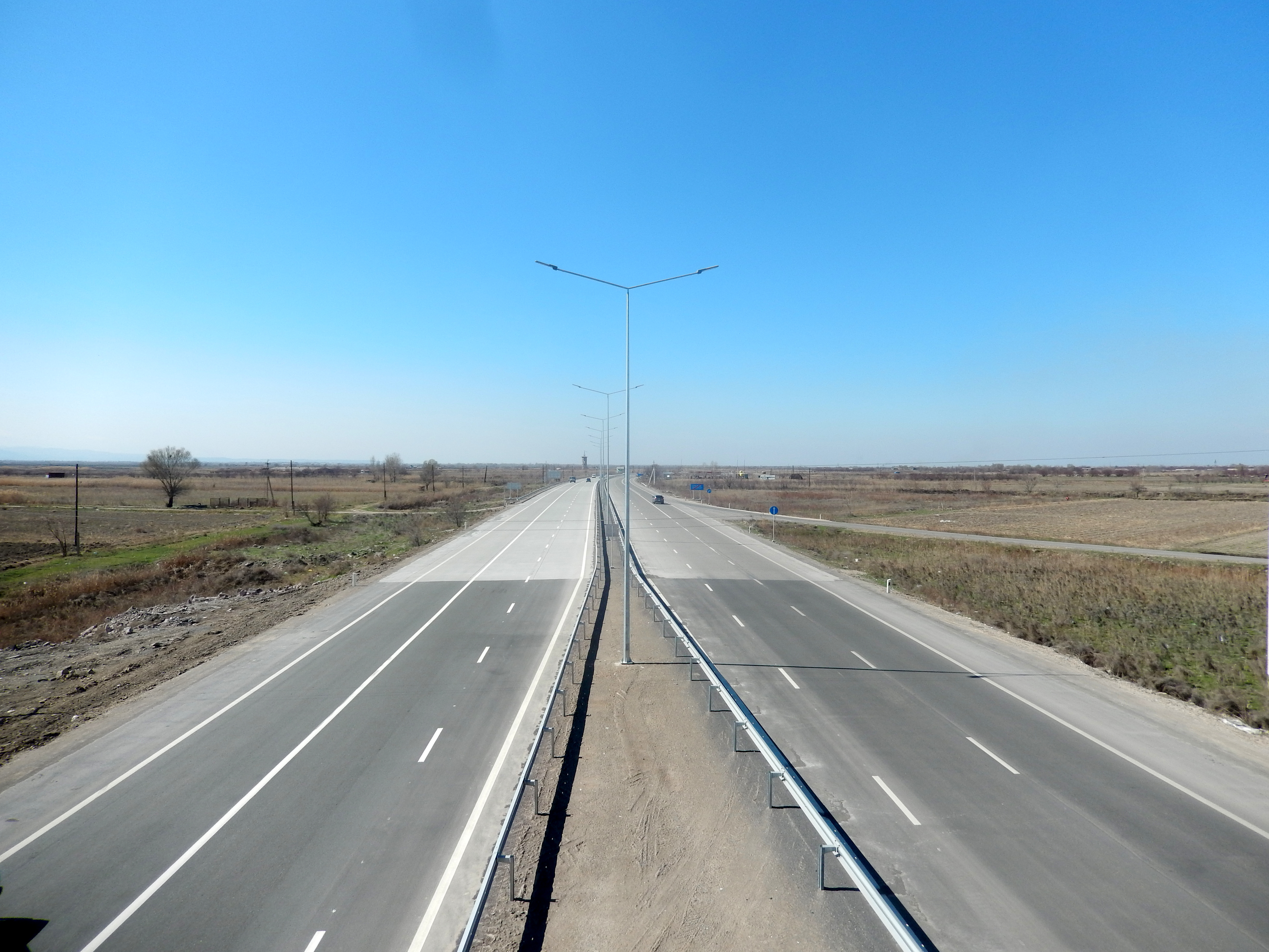 M2 highway, Armenia